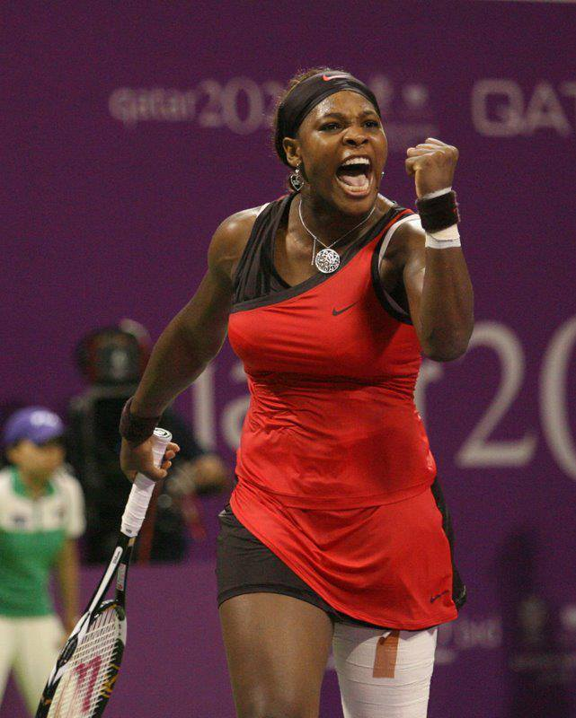 Serena Williams has become the oldest women’s world No 1 Open in Doha, Hanson K Joseph